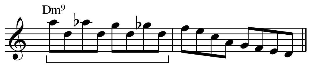 Pedal tone example. Created by Hyacinth (talk) 16:28, 3 November 2011 (UTC) using Sibelius.